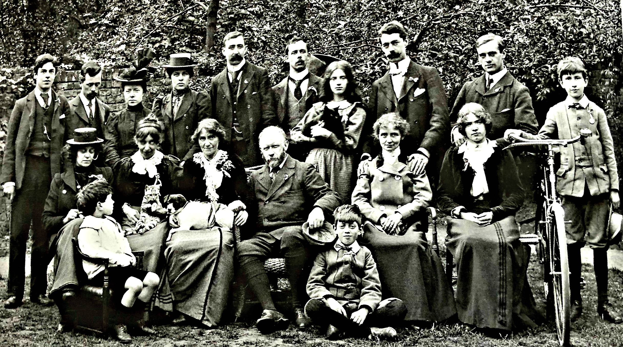 Garden party at Christopher Whall's house, Ravenscourt Road, Hammersmith, London, 1900. Back row standing from left: Karl Parsons, Alexander Strachan, Mary Hutchinson, unknown woman, A.J. Drury, J.H. Stanley, Veronica Whall (with cat), P.R. Edwards, Jasper Brett, Christopher J. Whall (with bicycle). Front row seated from left: Lillias Chaplin, Louis Whall, Alice Chaplin (holding kitten), Florence Whall, Christopher Whall, Hew B. Whall (sitting on ground), Mrs. P.R. Edwards, Jessie Boone